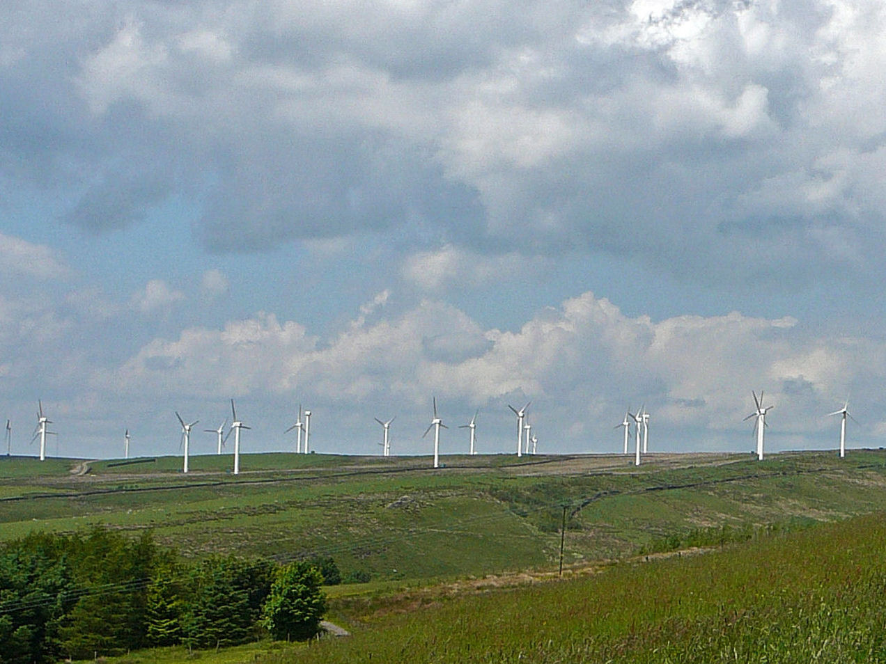 on the Lancashire/Yorkshire border between Burnley and Todmorden.